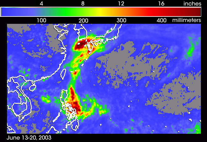 After traversing through the western Pacific over the past week, Tropical Cyclone Soudelor (07W) was beginning the end of its life cycle as it passed through the Korean Strait. Soudelor was named a Tropical Storm just west of the central Philippines at 12:00 UTC on the June 13, 2003. In the days following, the storm slowly skirted east of the Philippines where it delivered several inches of rain to the central islands as seen in the TRMM-based, near-real time Multi-satellite Precipitation Analysis (MPA) from the NASA Goddard Space Flight Center. Once past the Philippines, Soudelor took a more northerly track staying well east of the island of Taiwan and was elevated to typhoon status at 18:00 UTC on the June 16. After briefly reaching a strength of category 4 on the June 18, Soudelor began to weaken as it left the East China Sea and passed through the Korean Strait into the Sea of Japan. TRMM was able to capture Soudelor's the swath of heavy rainfall extending from east of the Philippines all the way into southern Japan where the cyclone interacted with a frontal system. This rainmap shows the total rainfall accumulation for the period June 13-20, 2003. The heaviest rainfall totals were found just off the southern coast of Korea and were a result of Soudelor's interaction with the frontal system. Although parts of southern Japan are shown to have received several inches of rain, fortunately the heaviest amounts remained offshore.